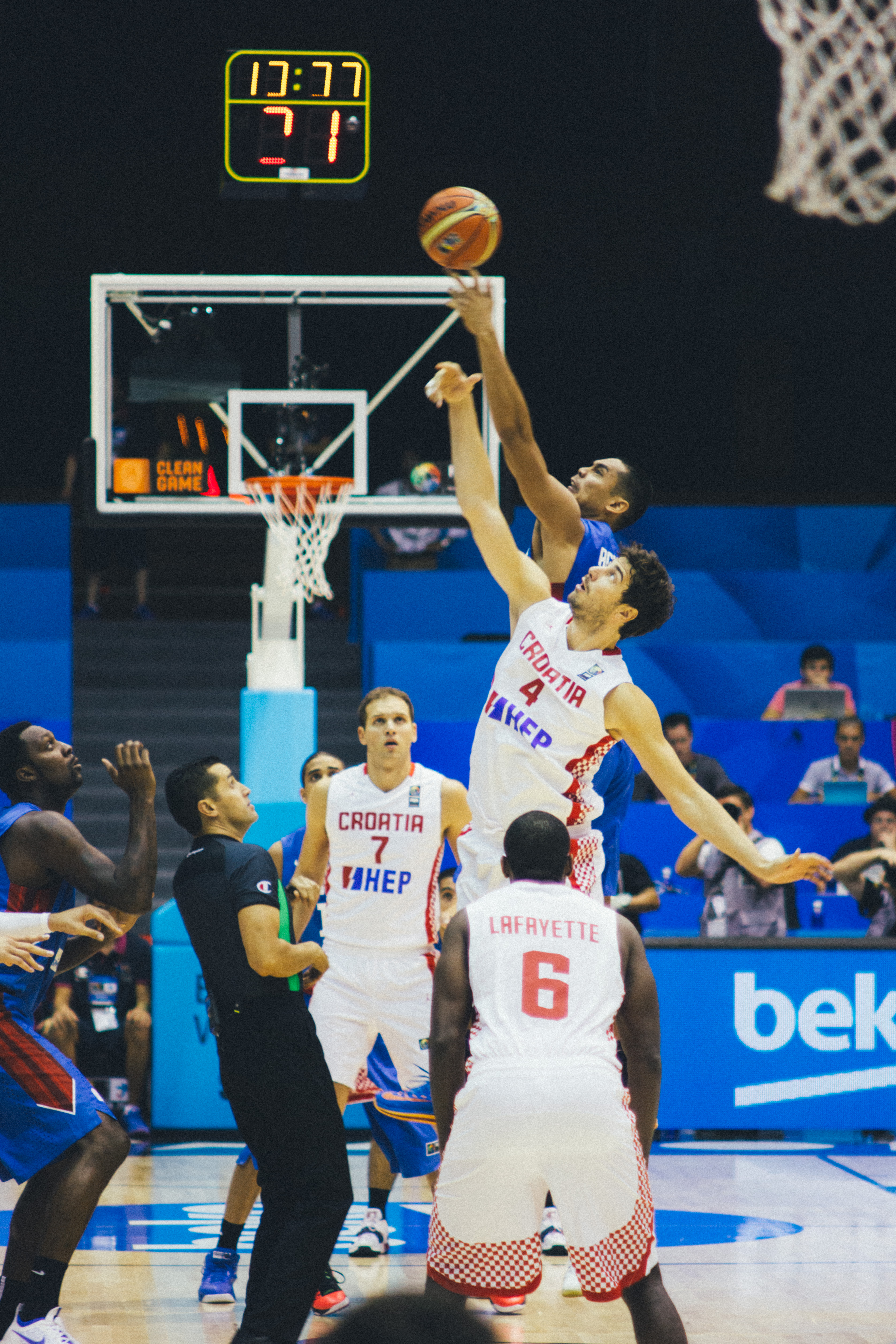 Start!